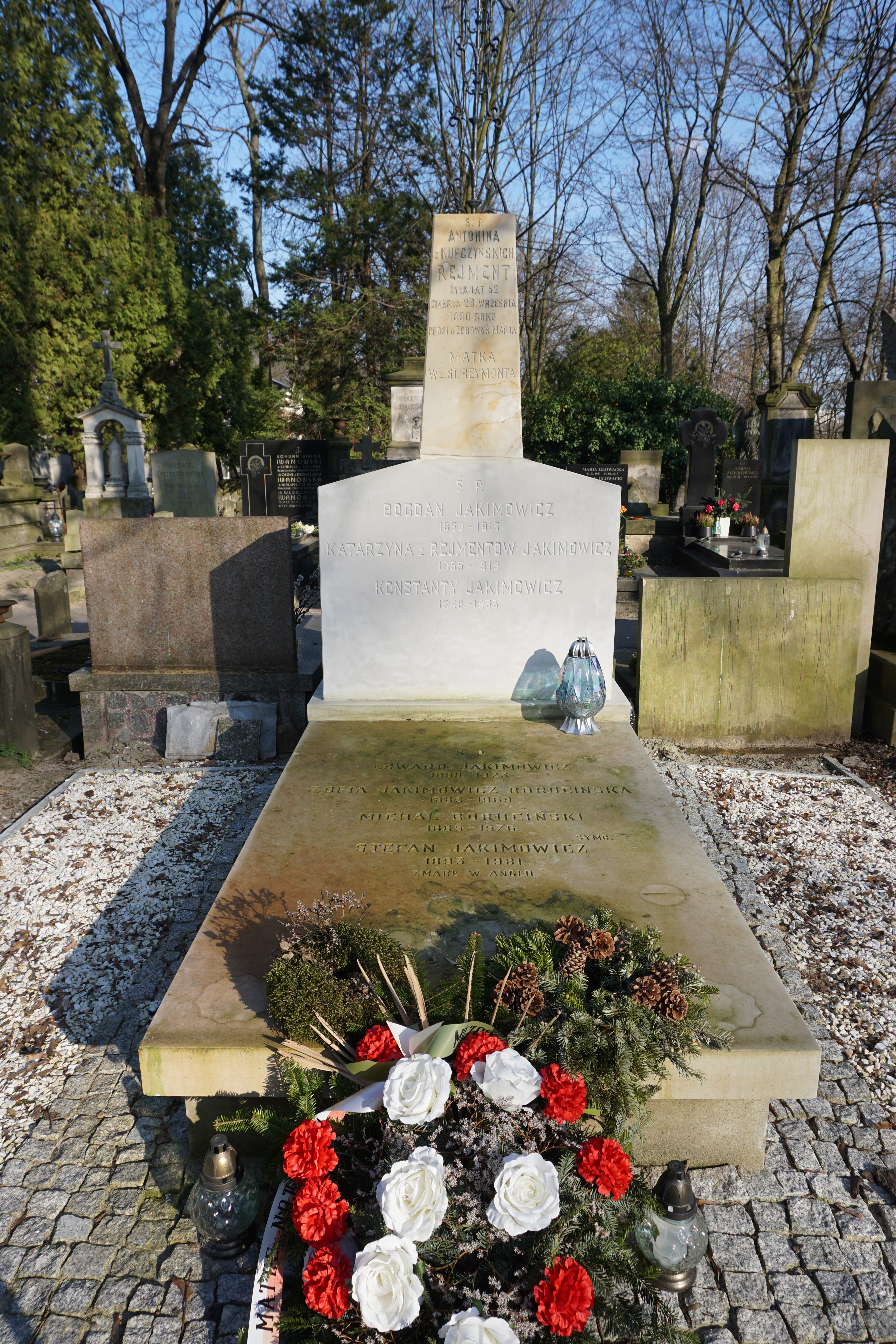 The grave of Konstanty Jakimowicz at the Powązki Cemetery (section 174, row 2, grave 18, 19, 20)